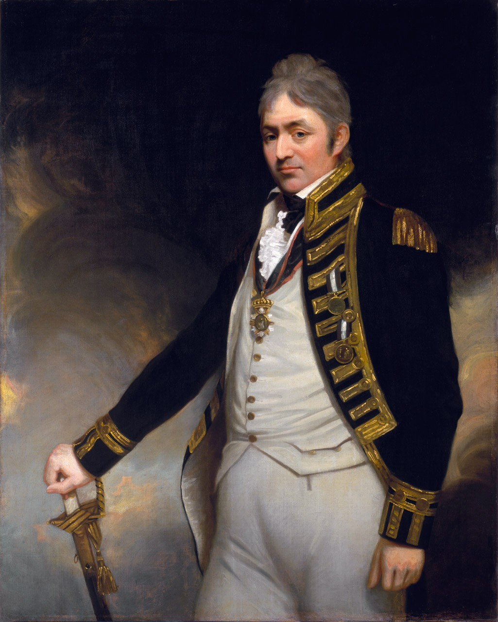 A three-quarter-length to left portrait of Rear-Admiral Sir Thomas Troubridge, 1st Baronet, in Rear-Admiral's full-dress uniform, 1793-1812. His right hand is outstretched on his sword hilt, and he wears the medals for St Vincent and the Nile together with the collar decoration of the Order of a Knight Commander of St Ferdinand and of Merit.